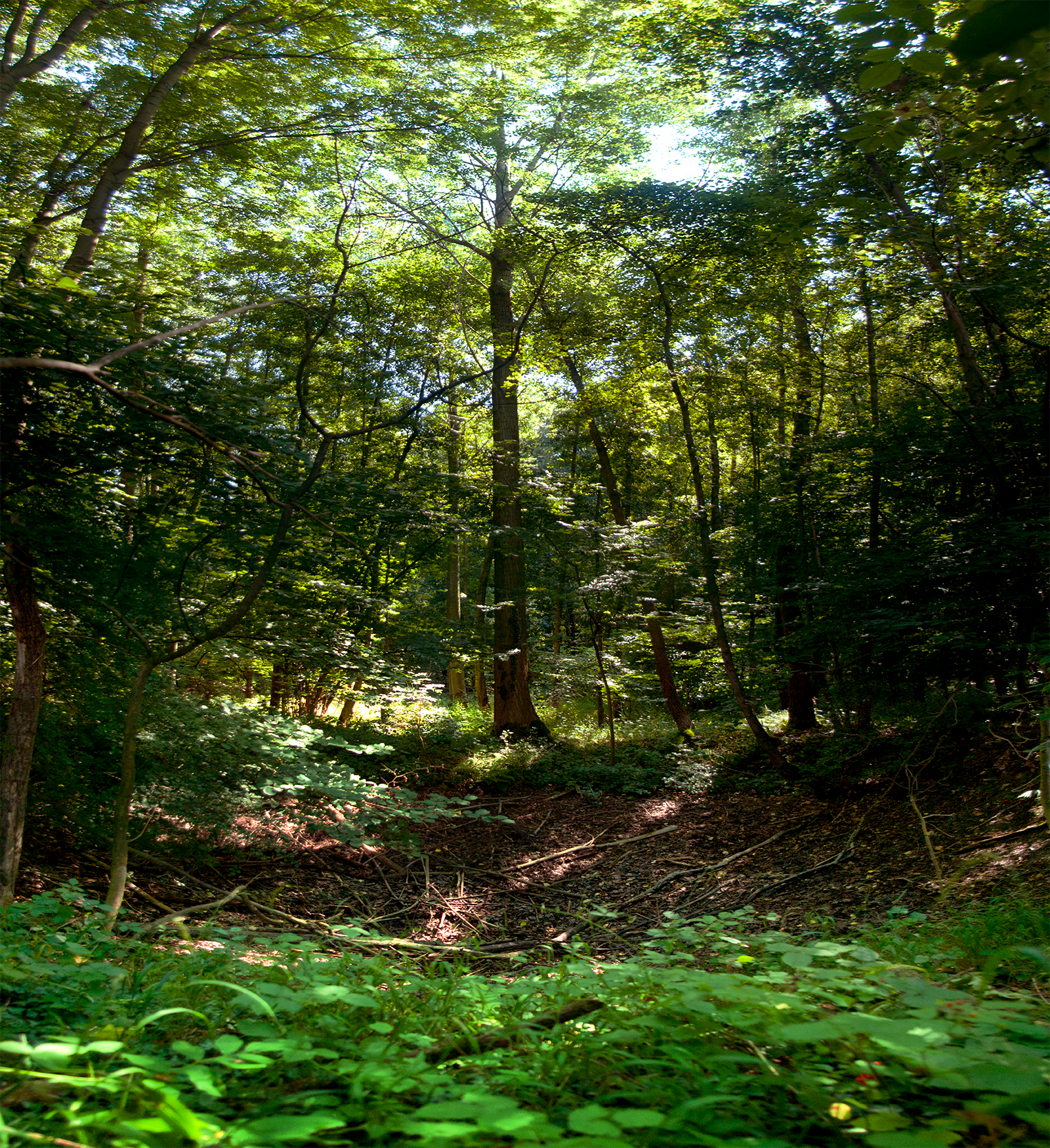 Bomb craters from World War 2 in the forest near Wiescher Bach (stream) in Hamm/Westphalia (Germany).